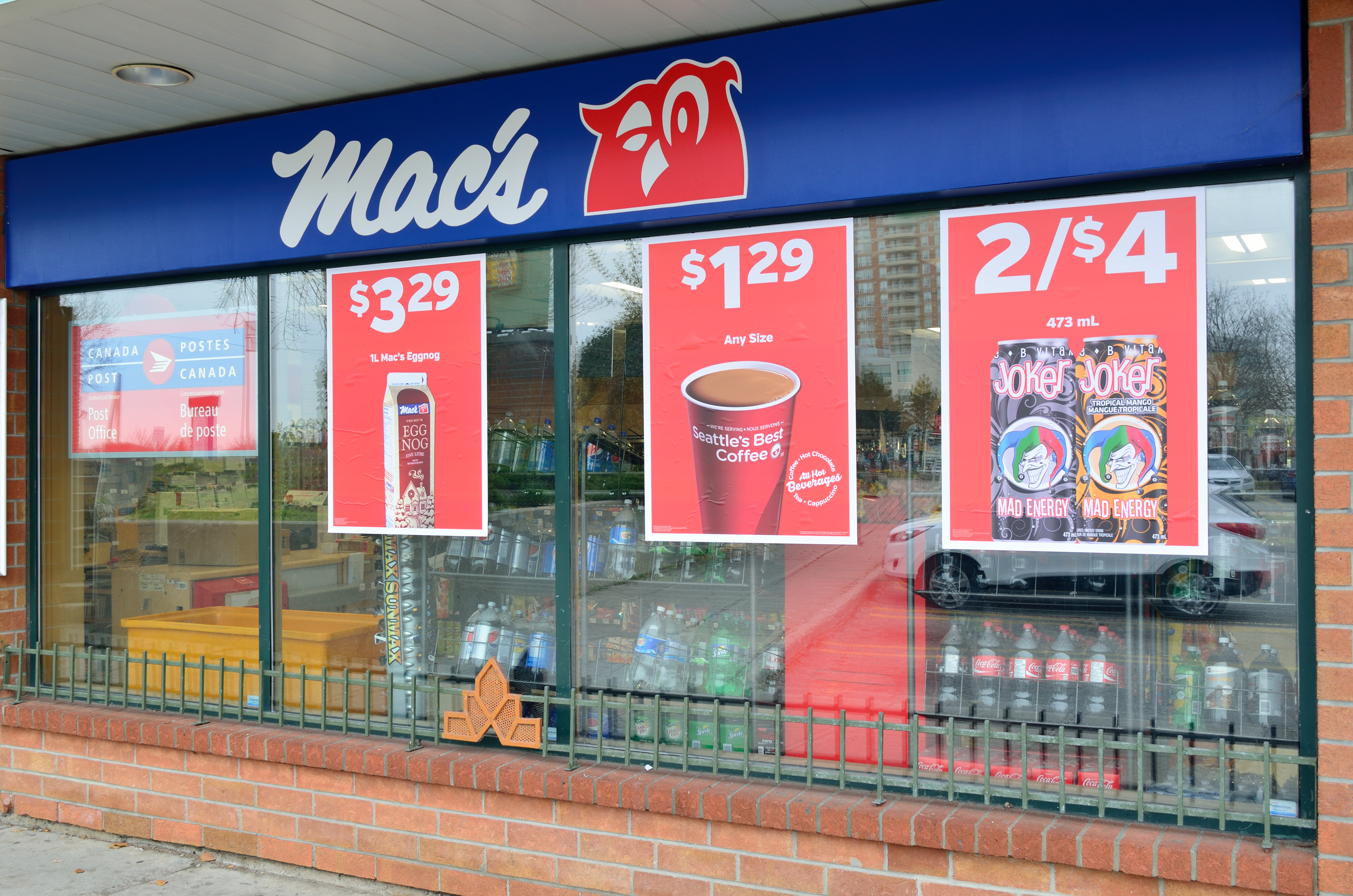 Mac's at Malvern Town Centre.